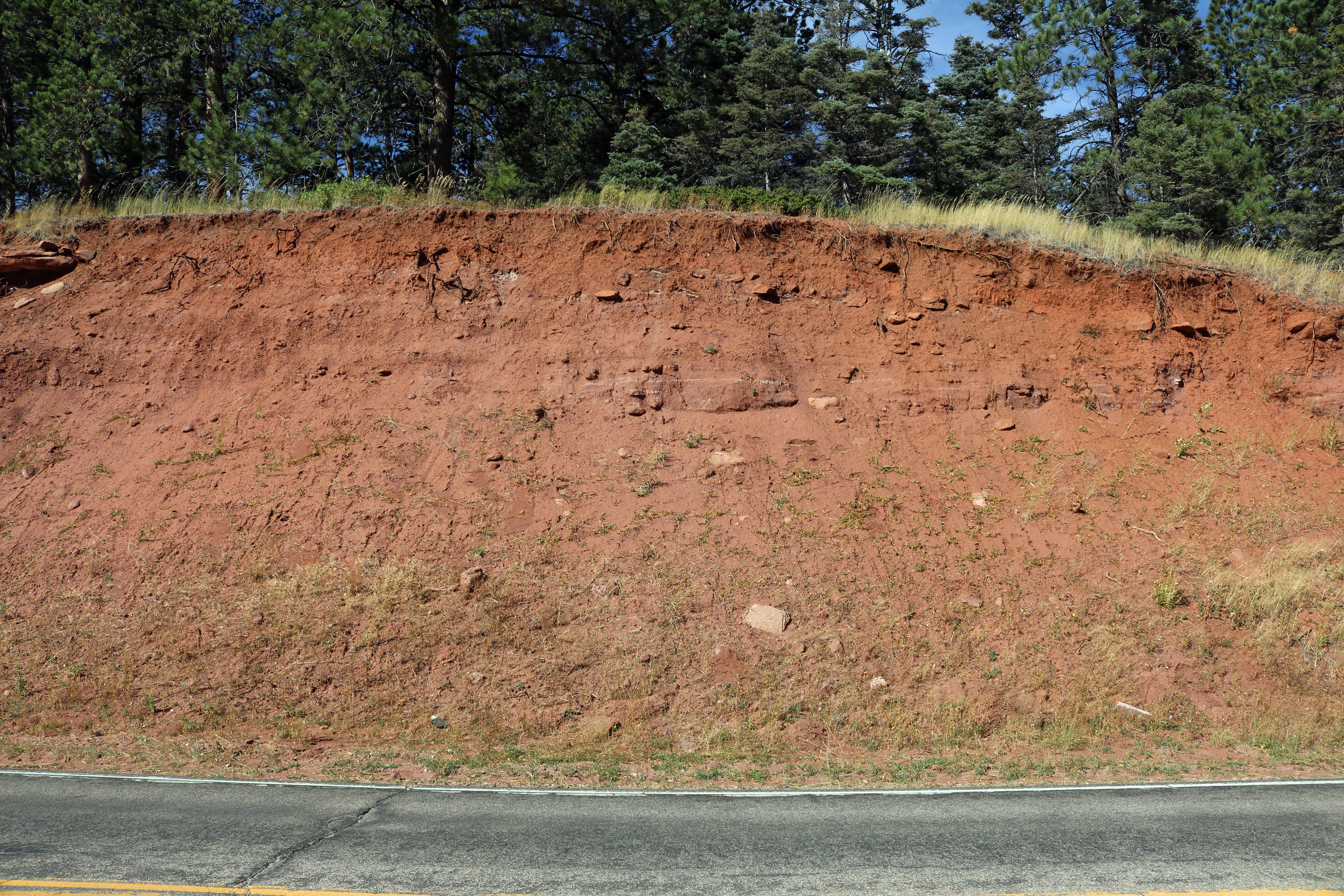 A roadcut showing the Sangre de Cristo Formation. This is along Colorado State Highway 12 in the southern part of Cuchara, Colorado.